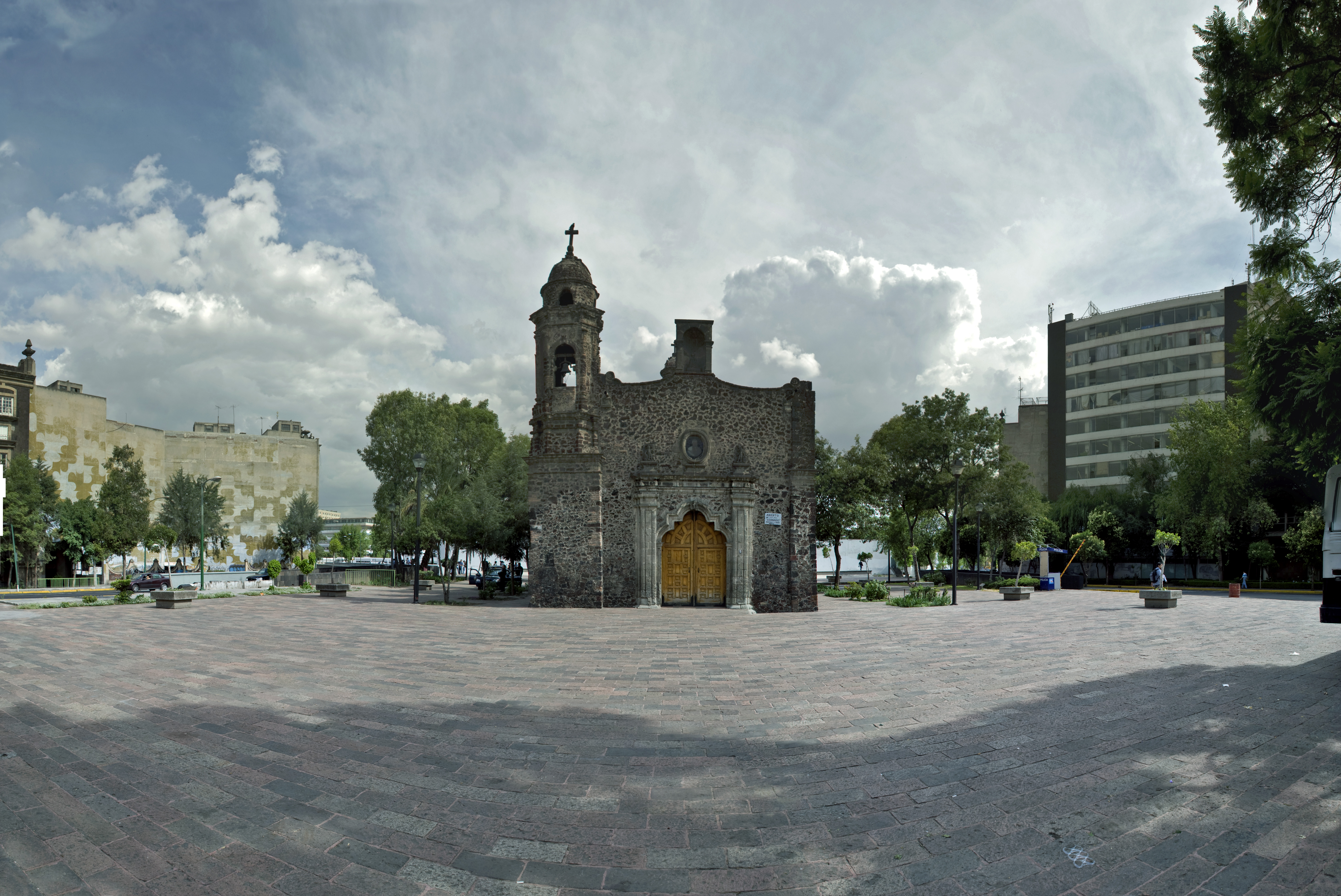 The Tlaxcoaque Chapel, a 17th century baroque temple at Tlaxcoaque Square, in Mexico City.